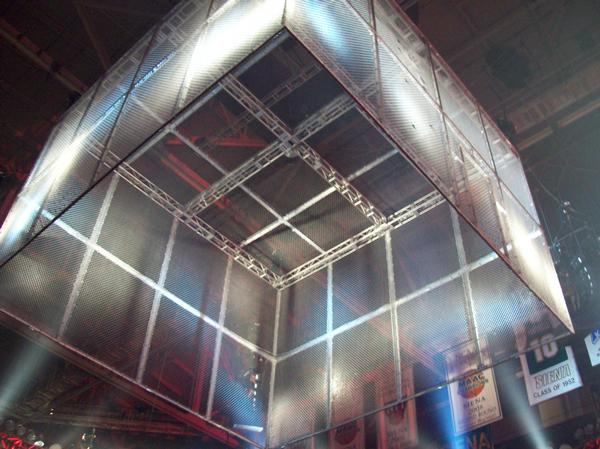 Here Comes The Cell!